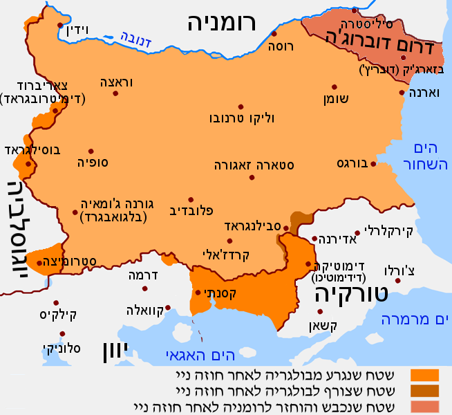 Bulgaria after Treatry of Neuilly-sur-Seine